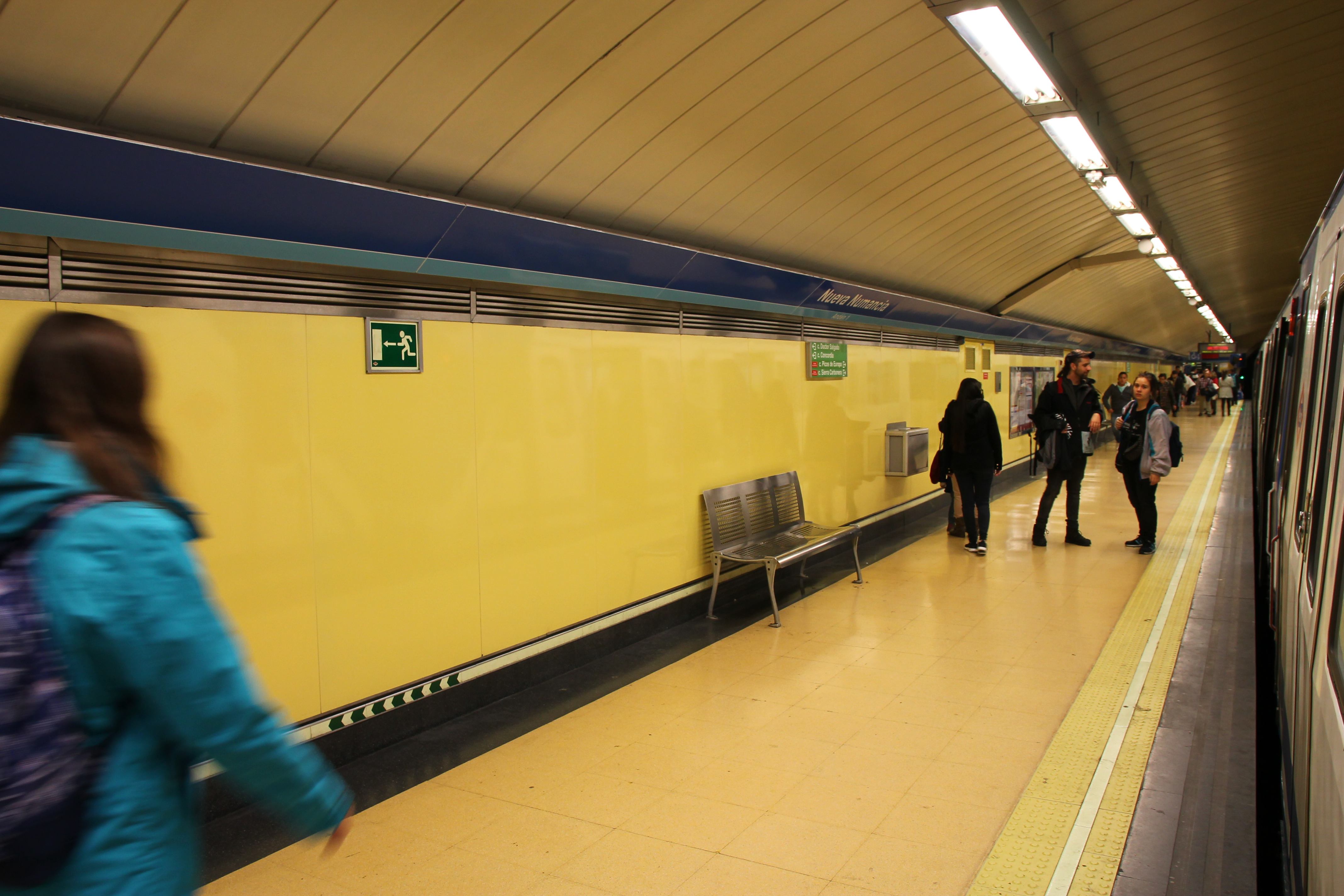 Nueva Numancia station. Madrid Metro.